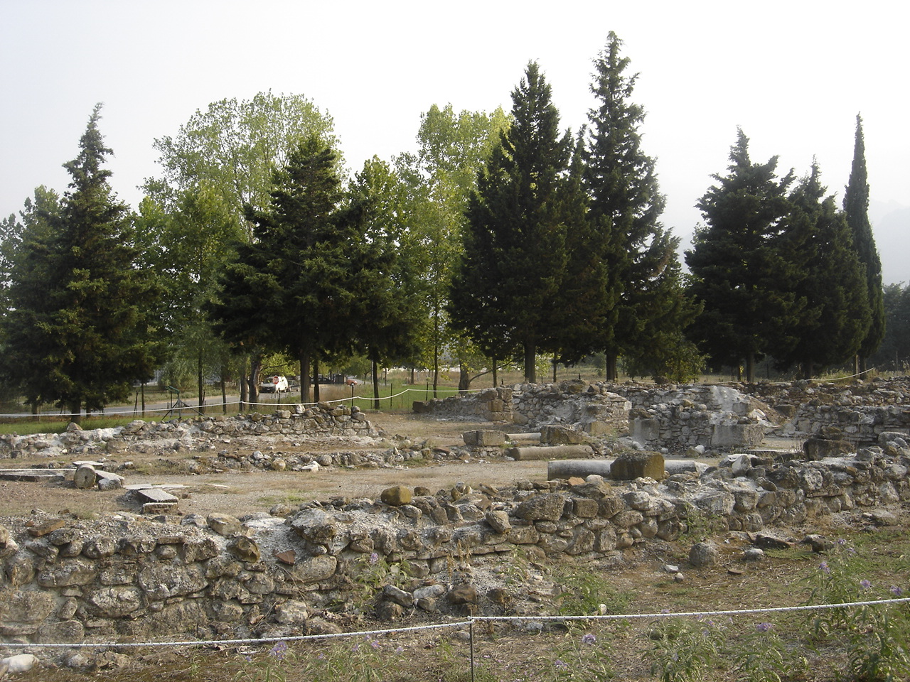 Archaeological site of Dion.